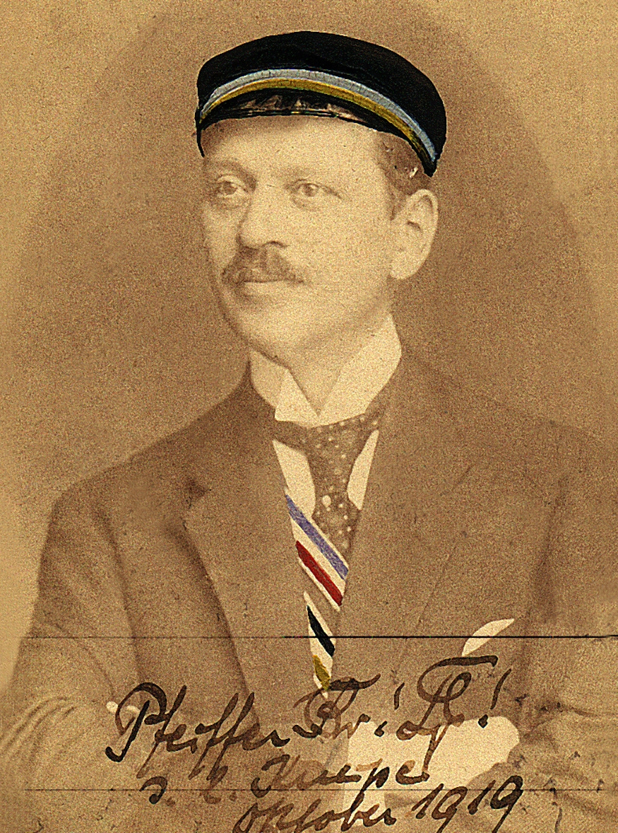 Picture of Willy Pfeiffer